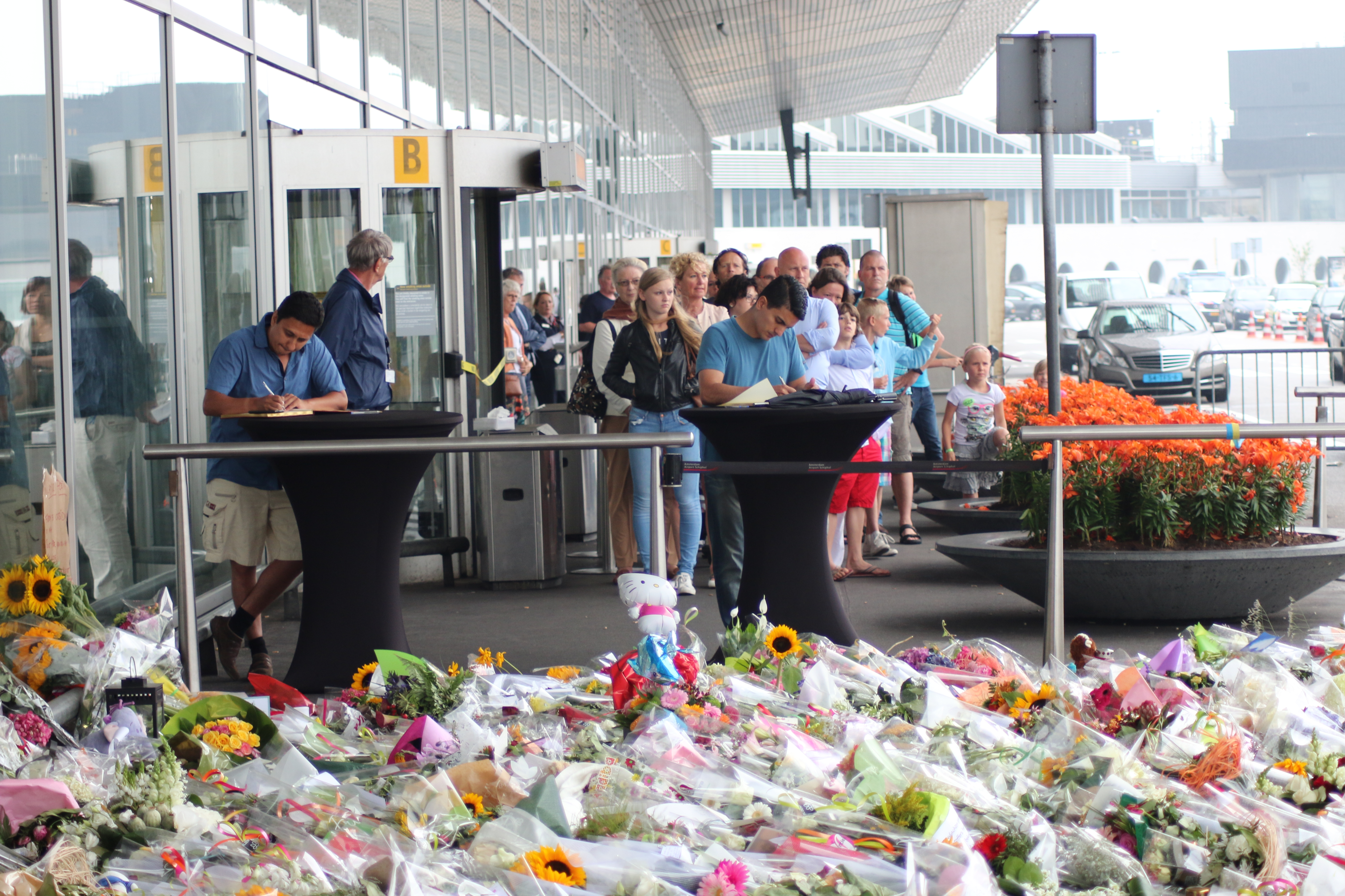 People sign the memorial book, lay flower and light the candle in memory of the victims of MH17 passengers. Amsterdam International Airport (Schiphol), 21 July 2014. Photo by Pejman Akbarzadeh / Persian Dutch Network.